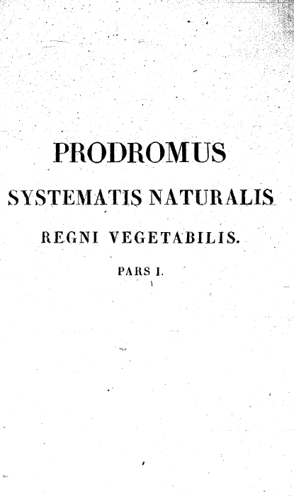 This is the title page [not frontispiece!] of Volume 1 of Prodromus Systematis Naturalis Regni Vegetabilis by A. P. de Candolle (1778–1841).